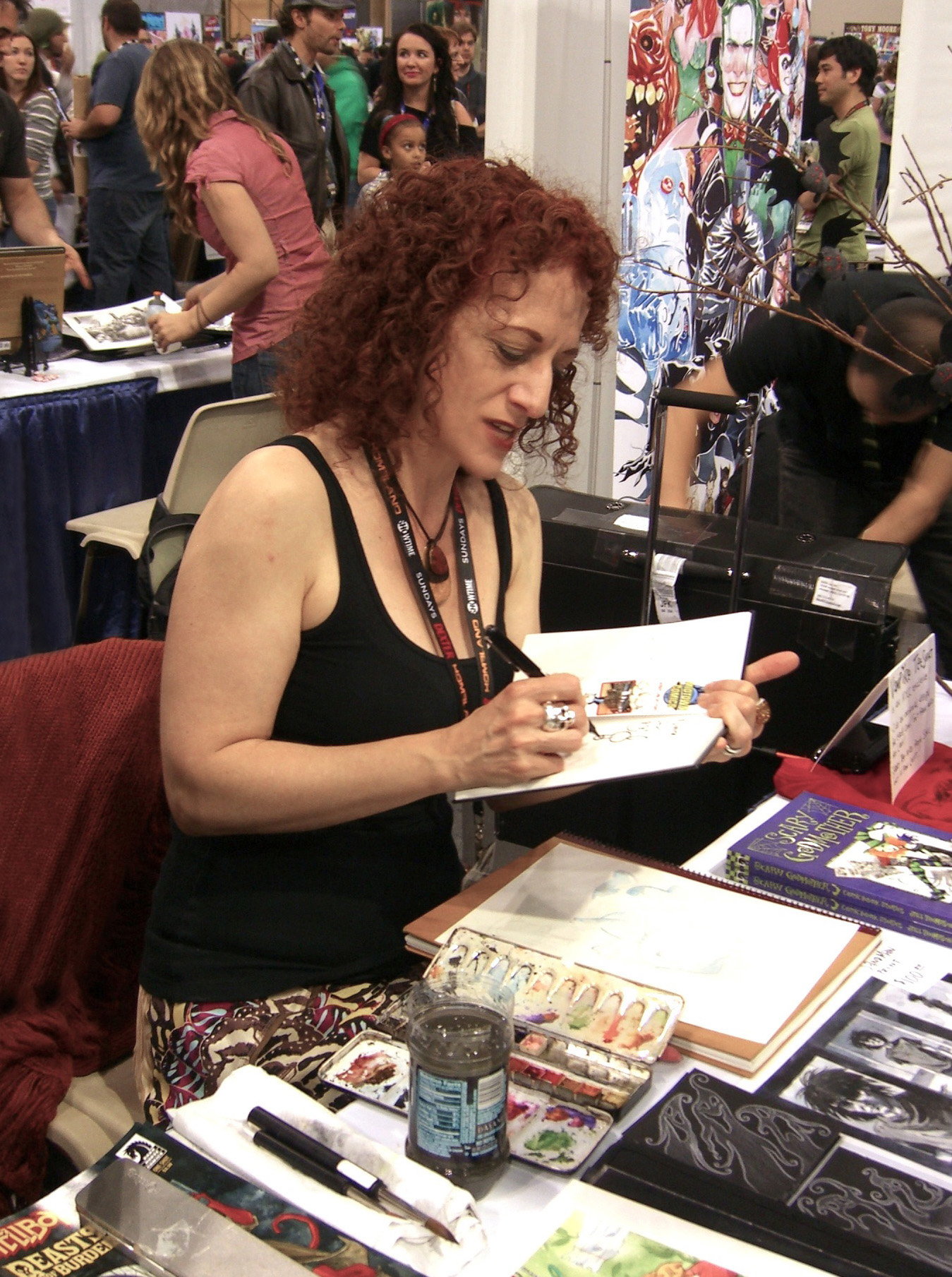 Comics creator Jill Thompson at the New York Comic Con, October 15, 2011. This photo was created by Luigi Novi. It is not in the public domain, and use of this file outside of the licensing terms is a copyright violation.